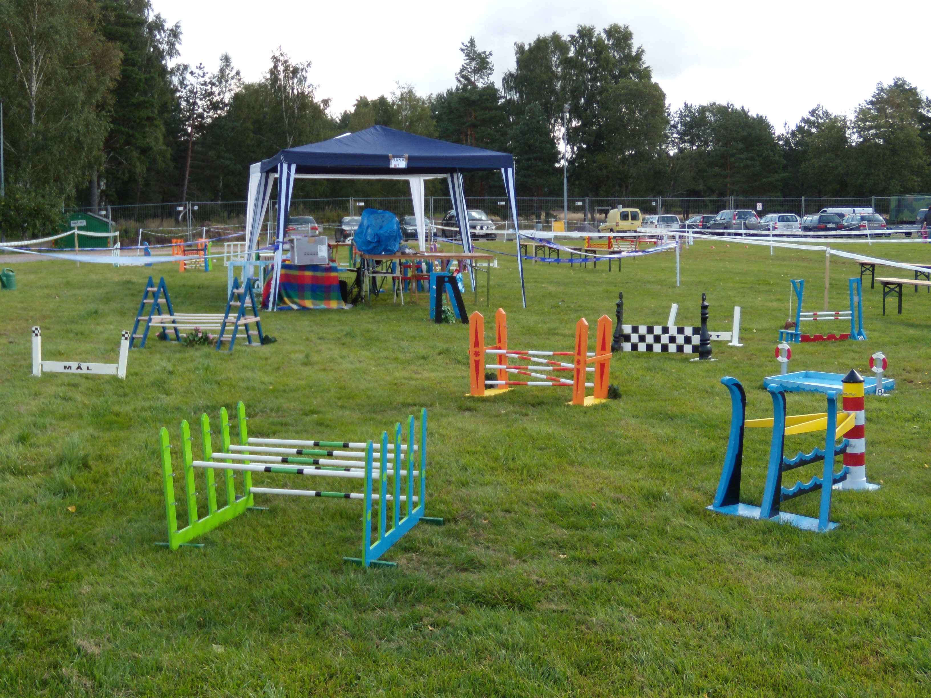 Rabbit show jumping, Sweden august 2009